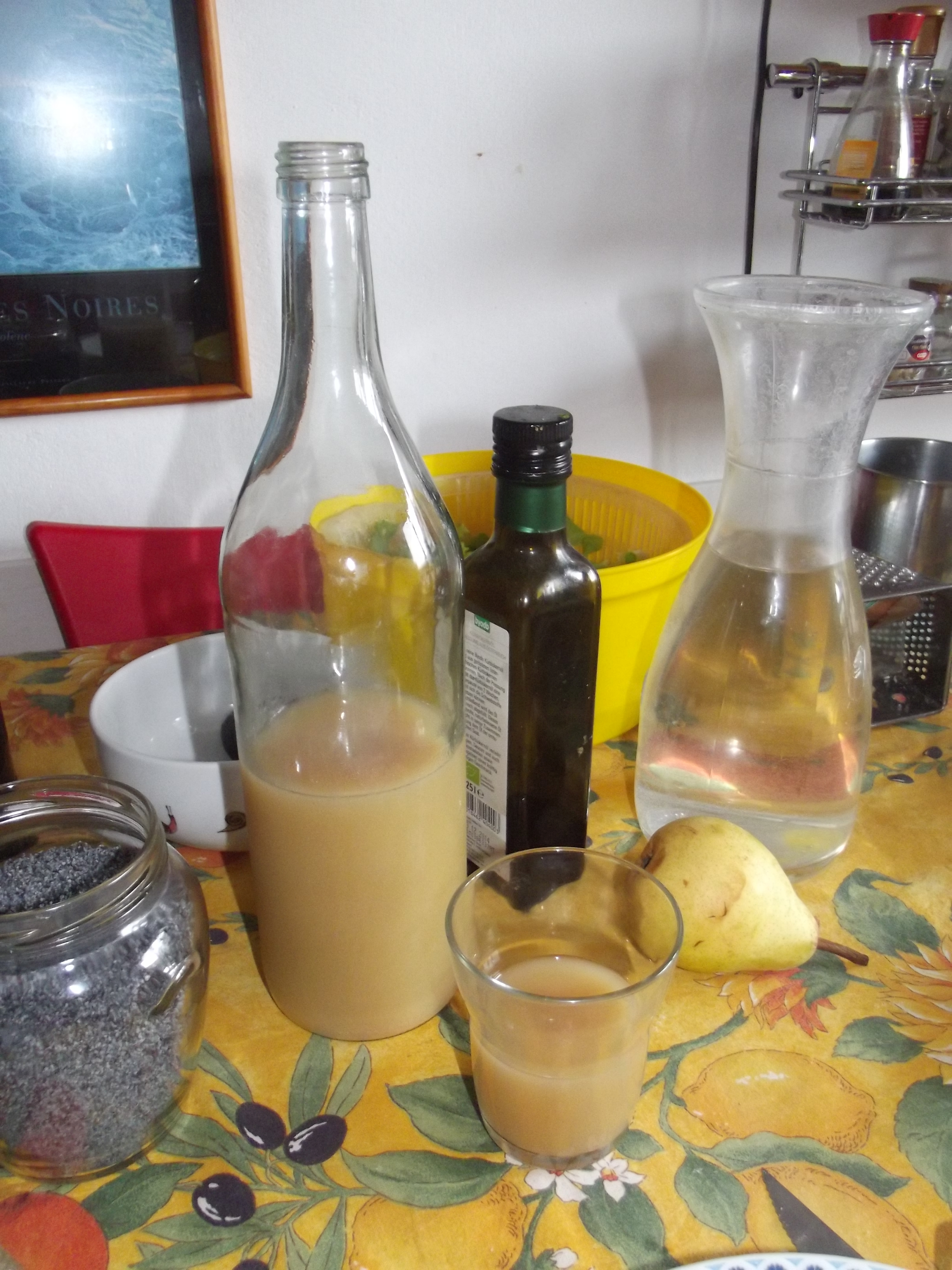 Home-made perry